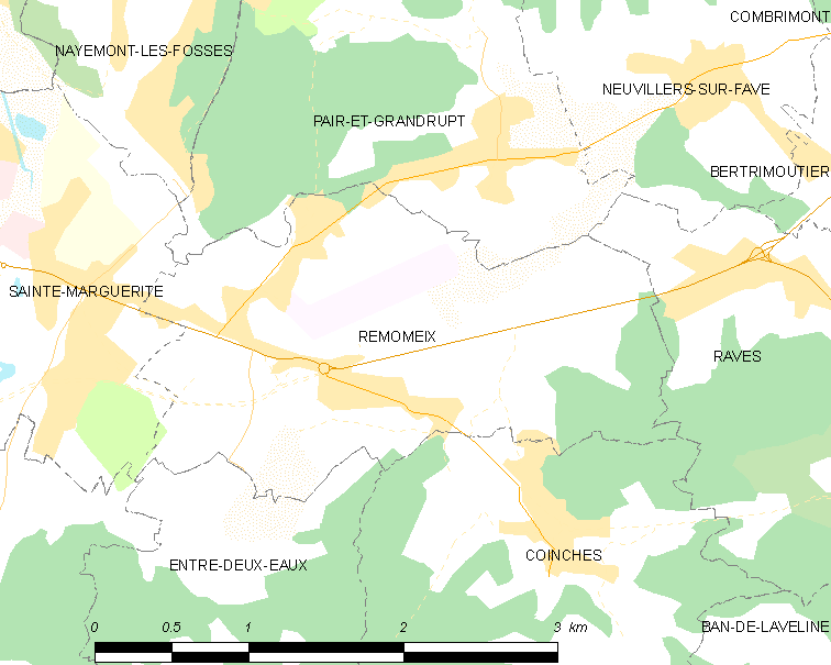 Map of French municipality Remomeix